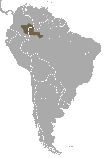 Mottle-faced Tamarin (Saguinus inustus) range